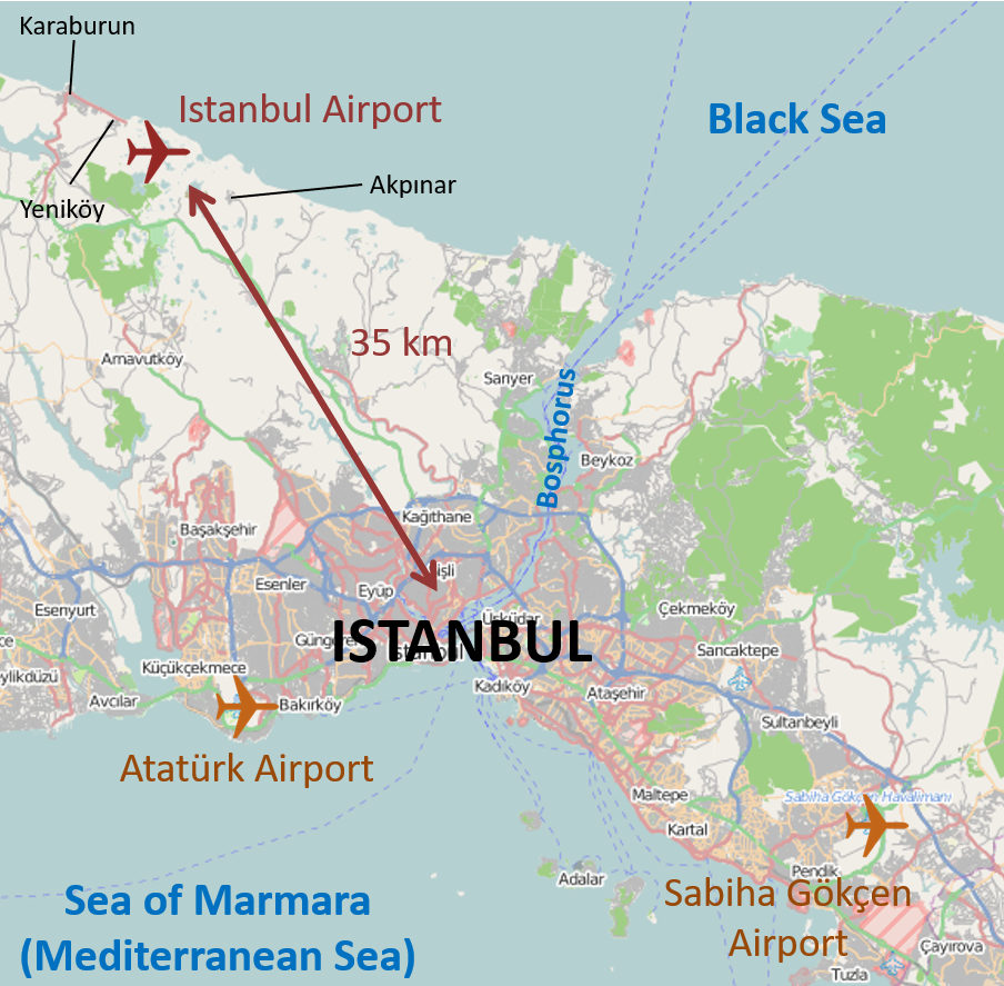 Location of the Istanbul International Airport